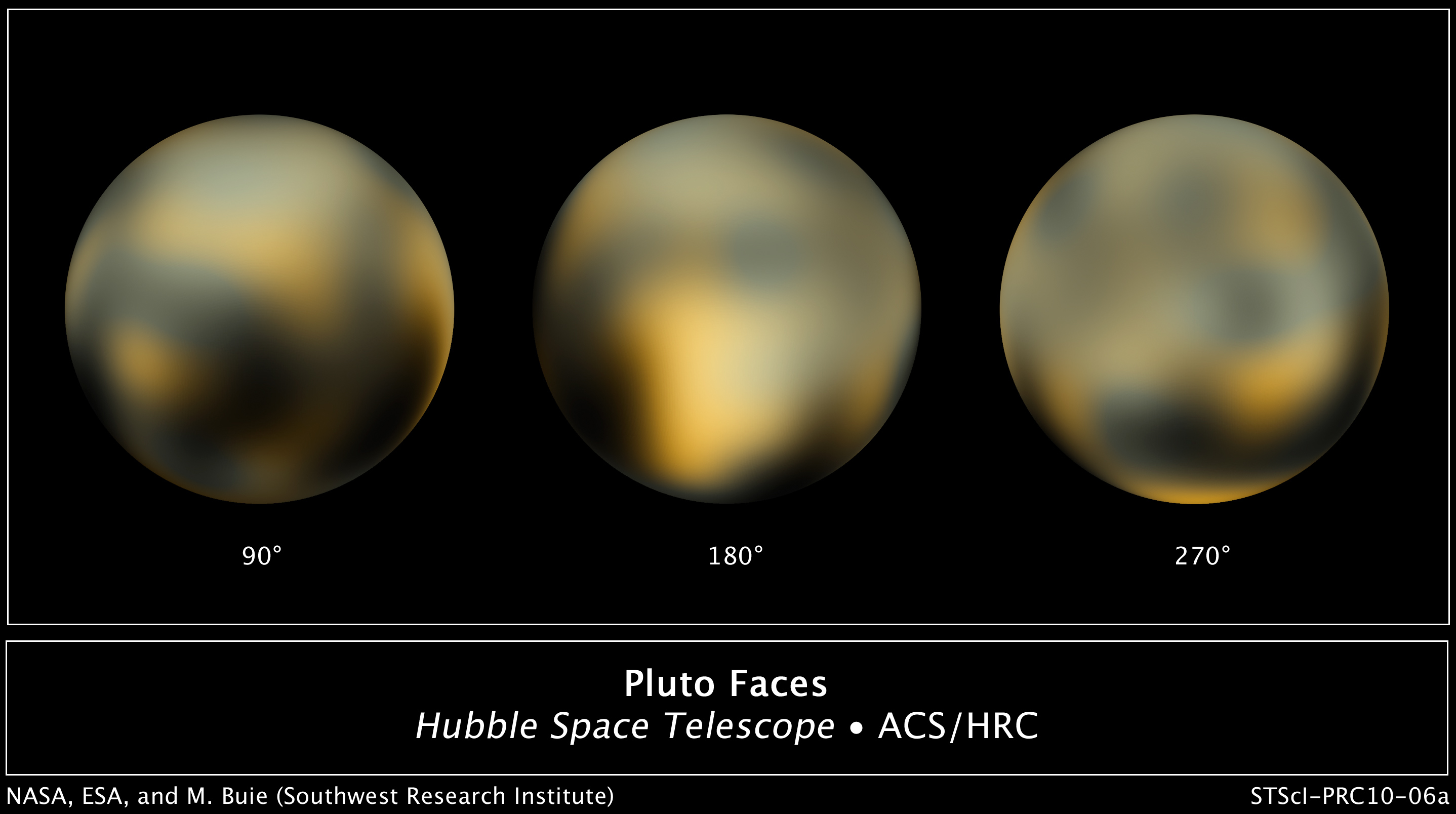 A best-fit color image/map of Pluto generated with the Hubble Space Telescope and advanced computers. Constructed from multiple photographs taken from 2002 to 2003. It is unknown if the brightness differences are mountains, craters, or polar caps.